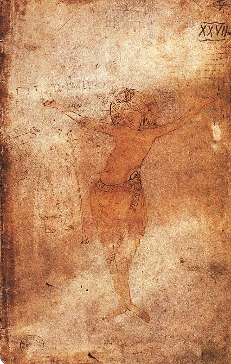 Page from the Pray Codex, Pen and watercolour on parchment